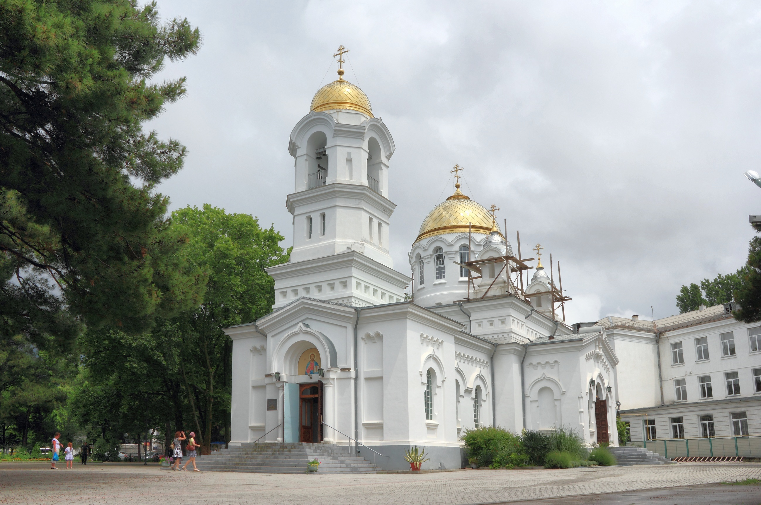 Gelendzhik. Church of the Ascension